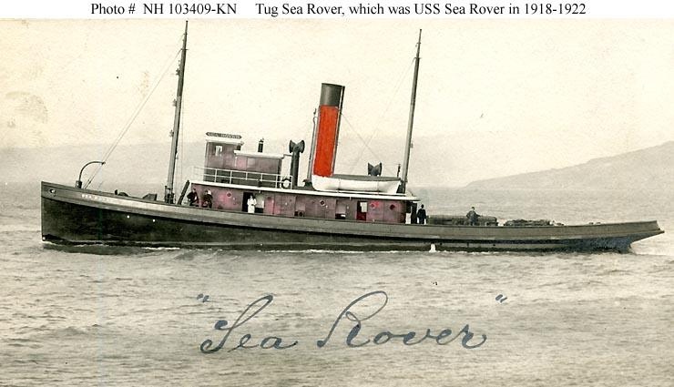 A color-tinted photograph of the commercial tugboat SS Sea Rover, probably in the San Francisco, California, area. She later served as the United States Navy tug USS Sea Rover (SP-1014), later .